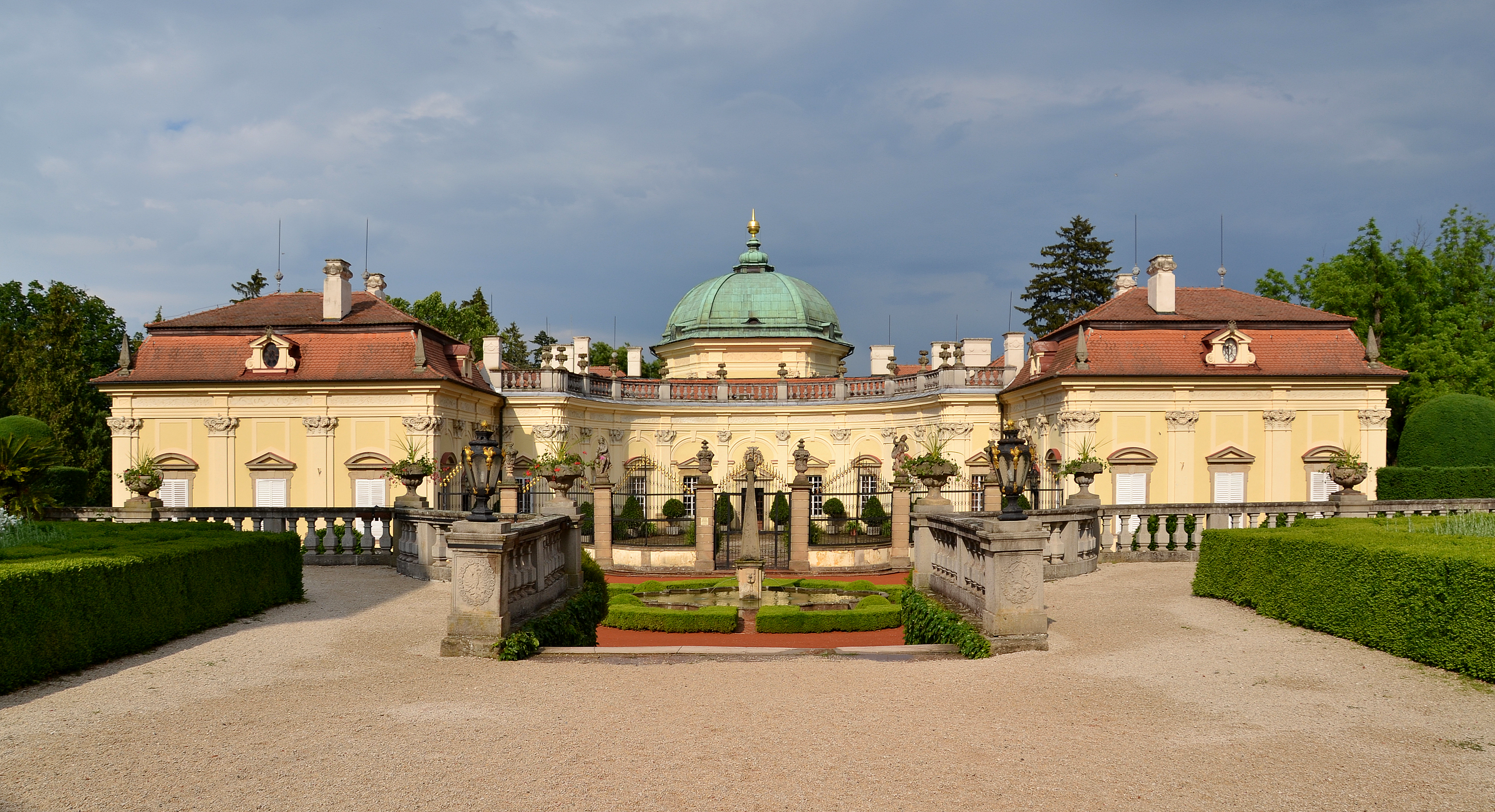 Castle Buchlovice (Buchlowitz), Czech Republic